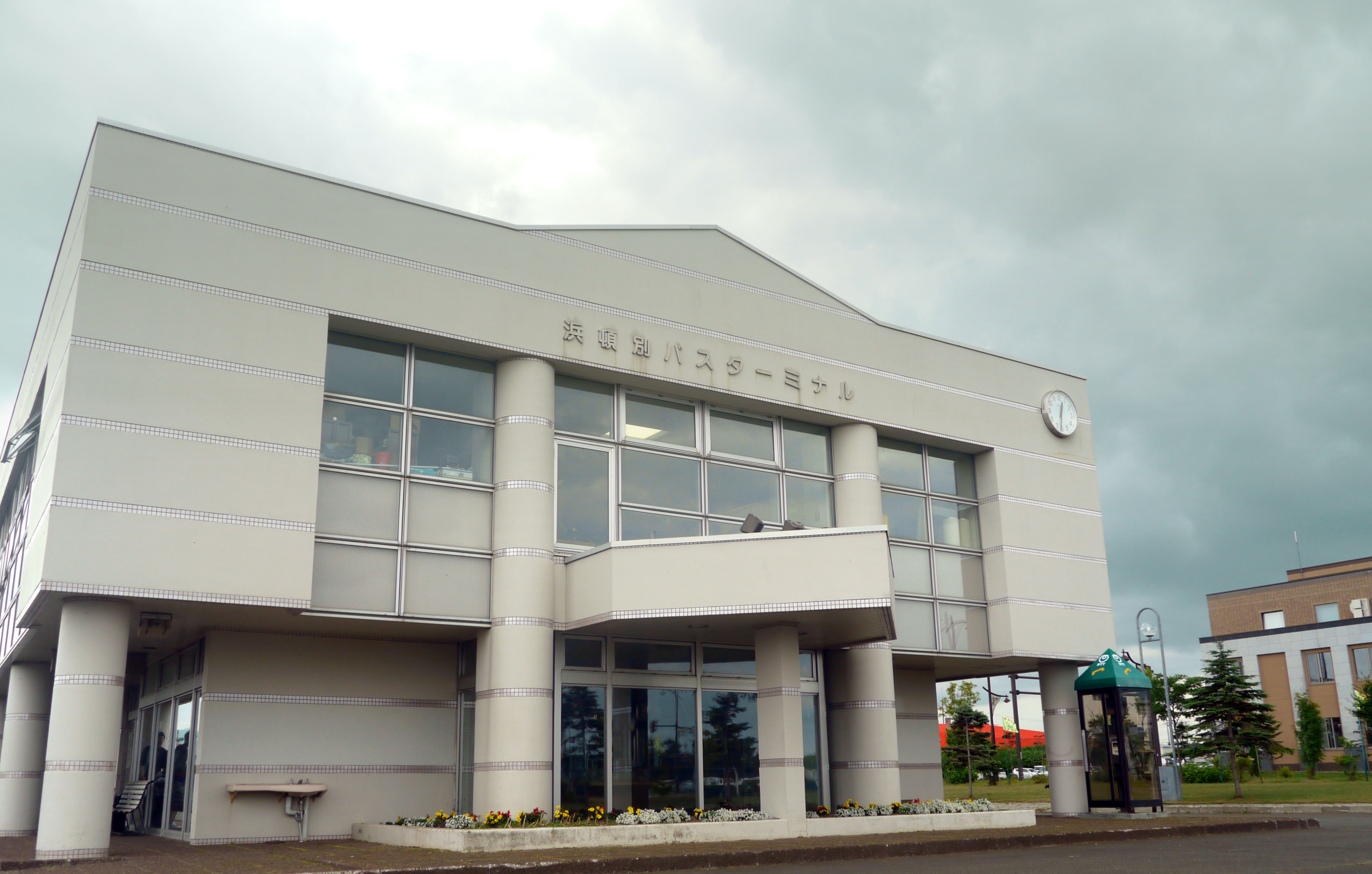 The remains of Hamatonbetsu Station of the Tenpoku Line in Hokkaido, Japan. Photo taken on August 5, 2011.